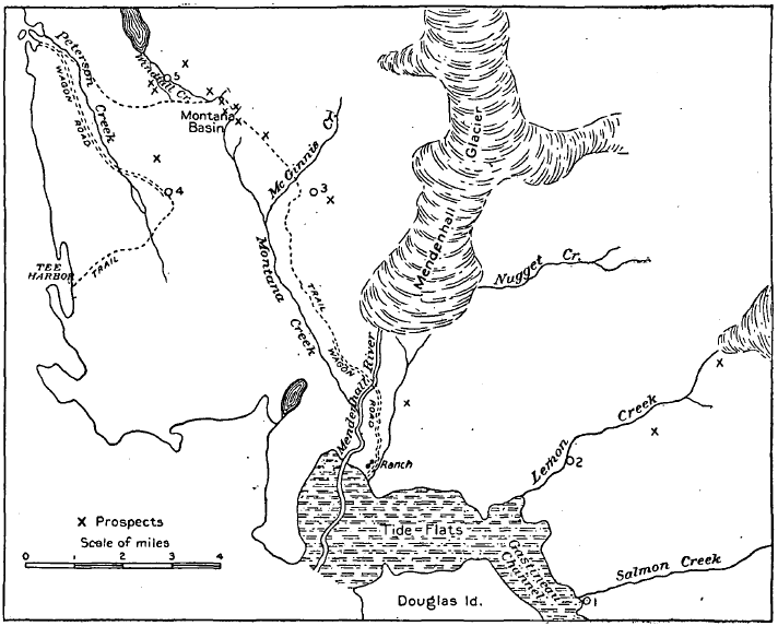 Mendenhall glacier map